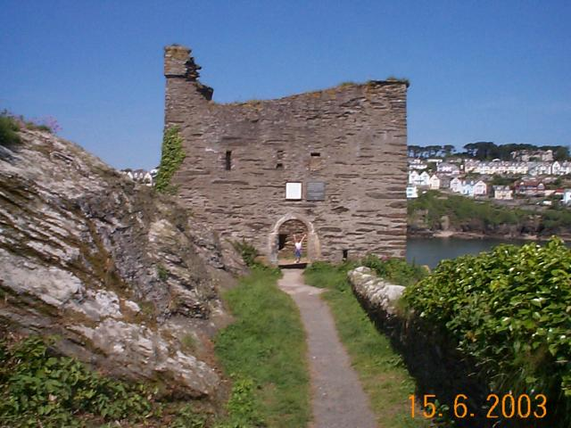 Chain Fort guarding the mouth of the River Fowey, Cornwall. This is the eastern blockhouse, from which a chain would have been stretched to the western shore to impede ships trying to enter the river.